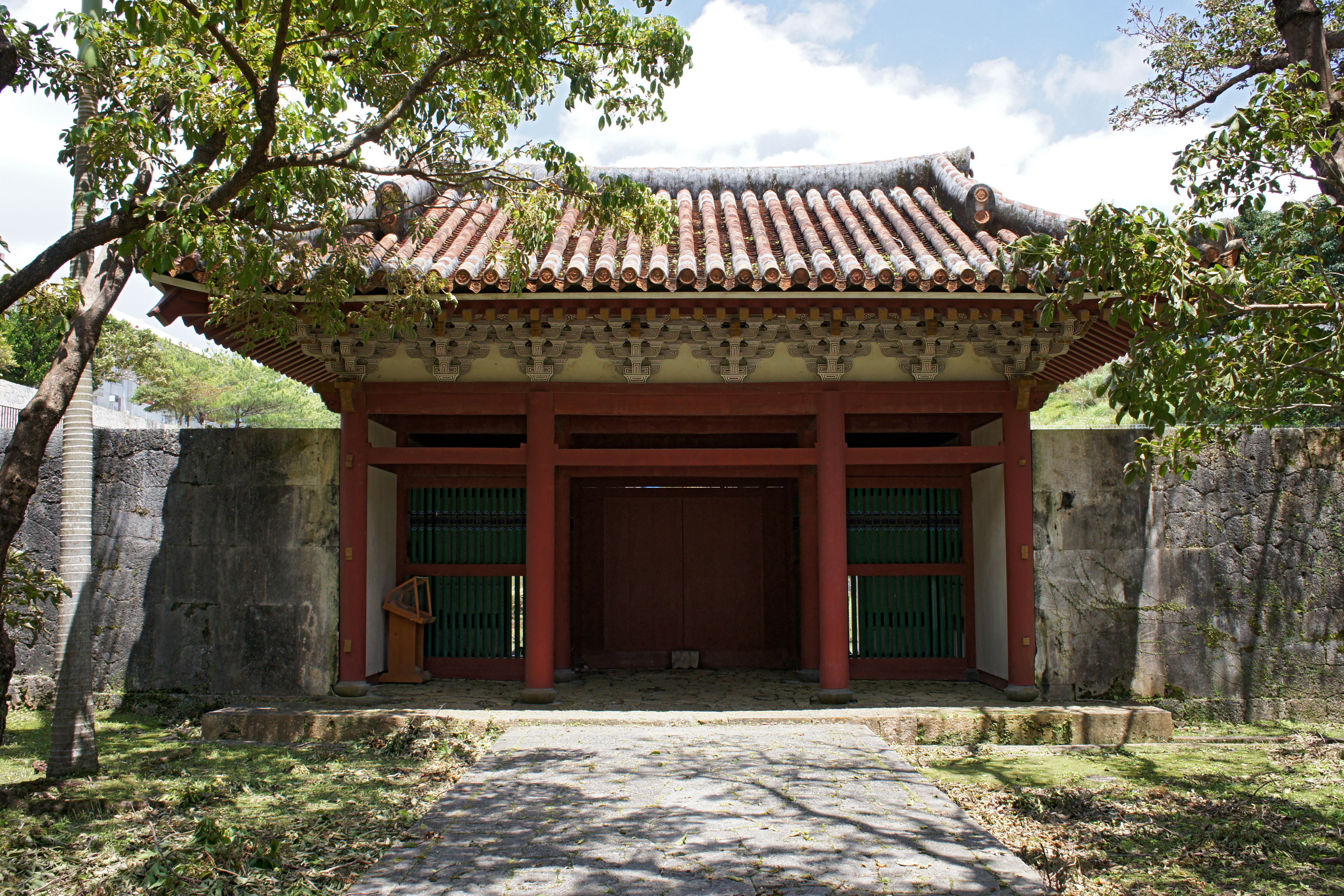 Enkaku-ji is a National Historic Site in Naha, Okinawa prefecture, Japan.